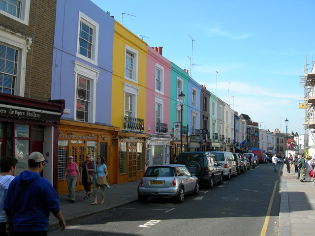 Portobello Road, W11. A very colourful part of London, there are numerous shops selling antiques and curios here.